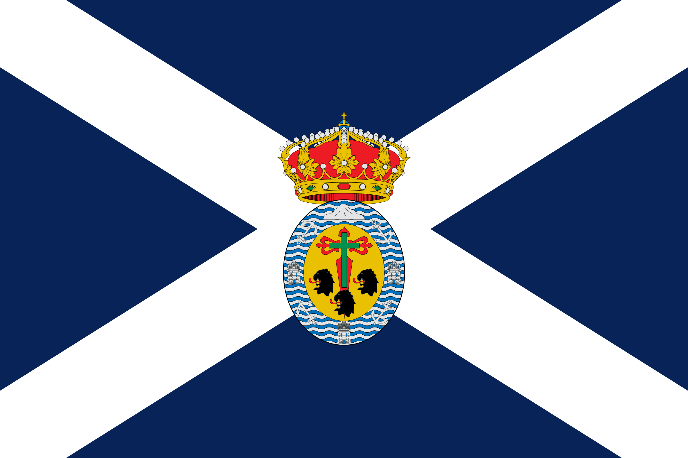 According to "Banderas y Escudos de las provincias de España", published by the Ministry for Public Administrations, the flag of the Province of Santa Cruz de Tenerife is blue with a white saltire and the provincial coat of arms in the middle.